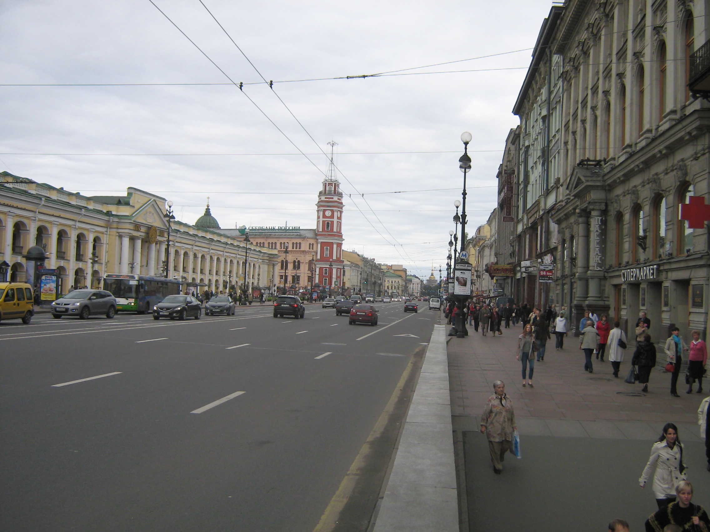 Saint Petersburg (Russia), Nevsky Avenue, Great Gostiny Dvor